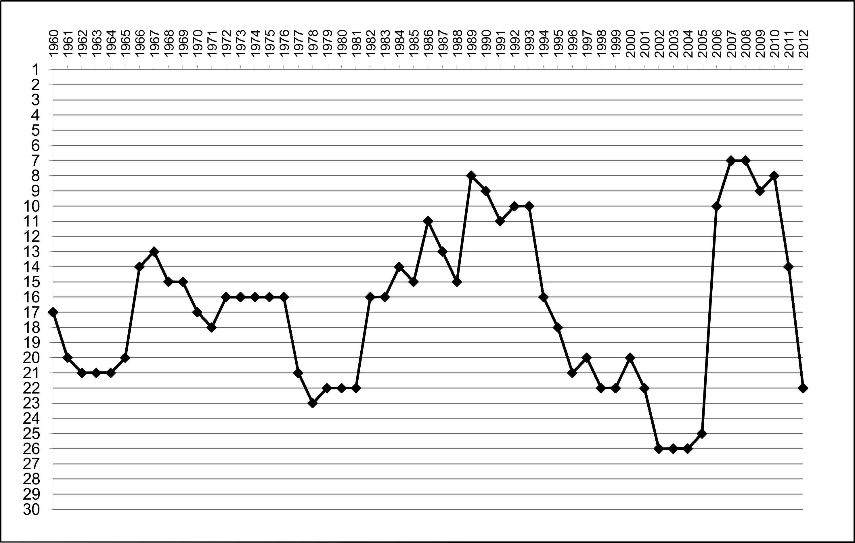 Romanian Liga I (formerly named Divizia A) UEFA Ranking History